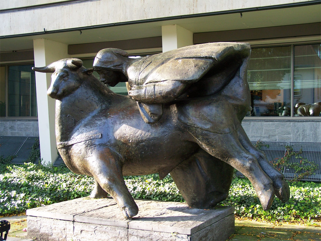 Bull with Rider by Paul Grégoire in 1967. Placed at the Mariaplaats in Utrecht, as a gift from the Dutch National Railways.